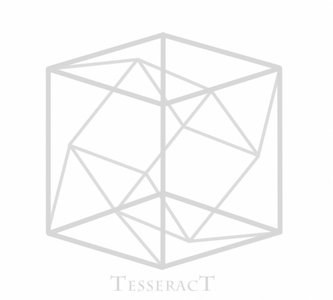 album cobver